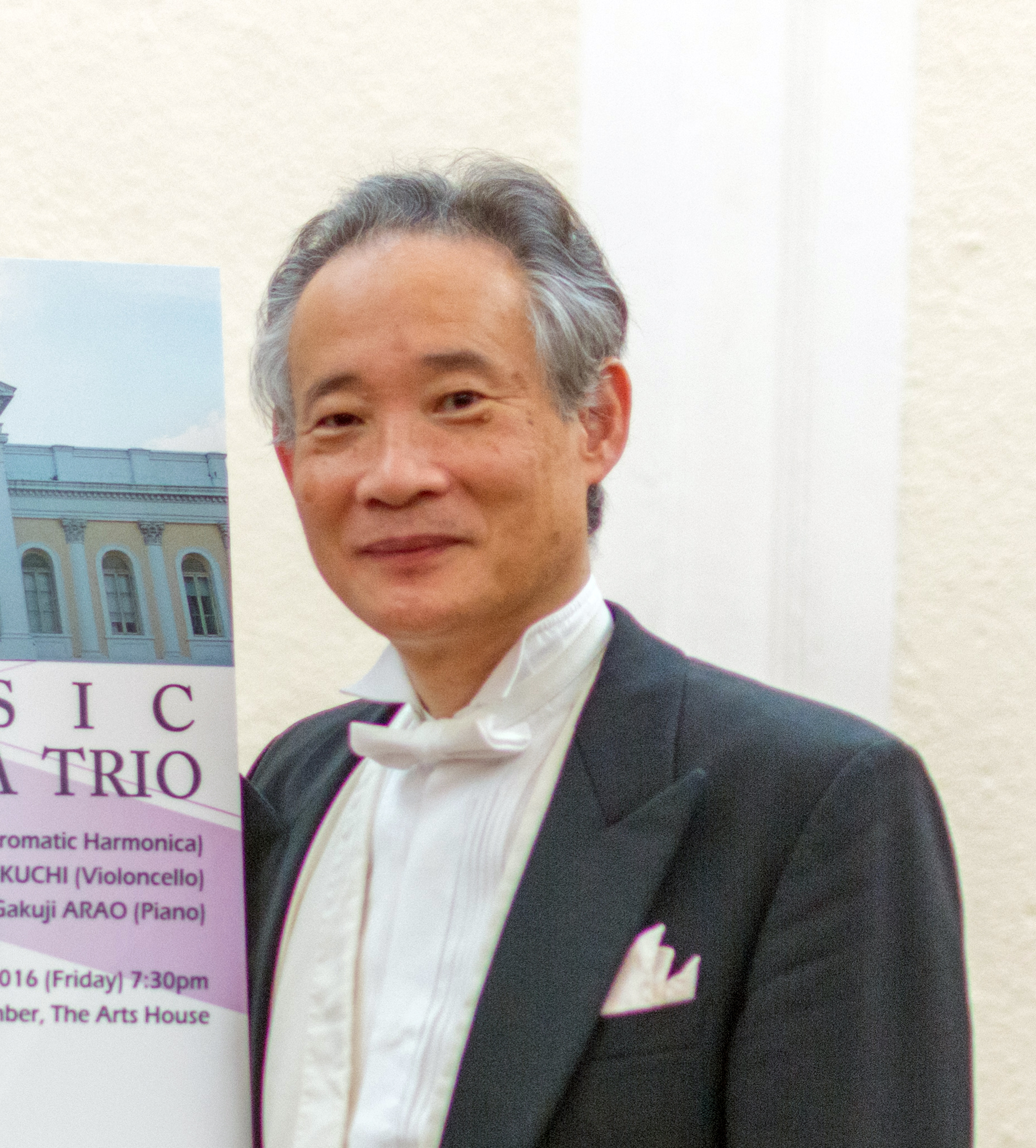 Profile photo of Yasuo Watani